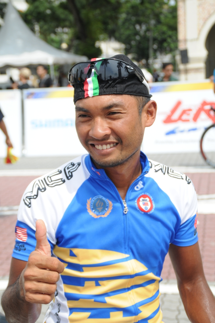 Suhardi Hassan - Le Tour de Langkawi 2009